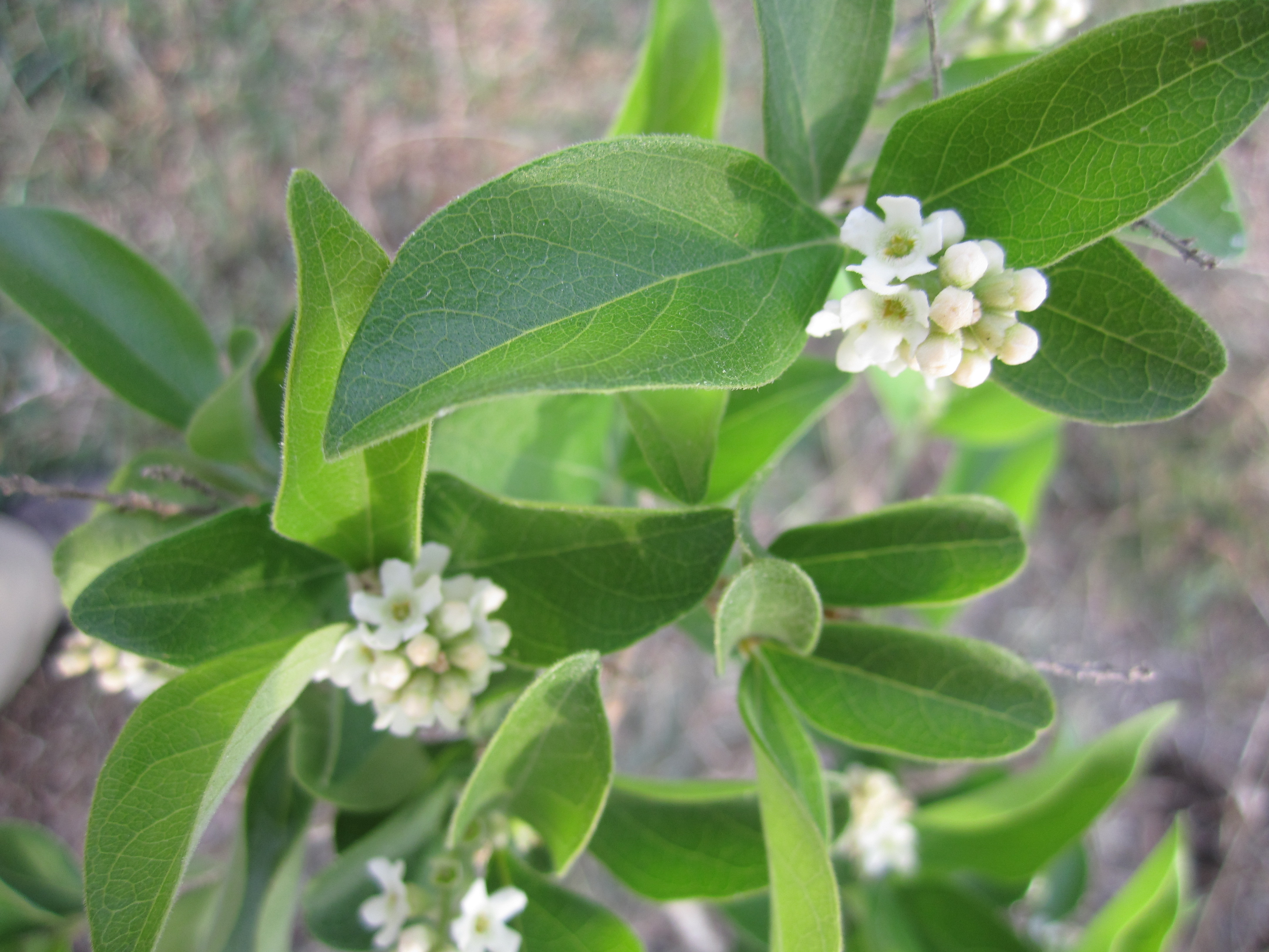 Flowers on a cultivated specimen of Citharexylum berlandieri.